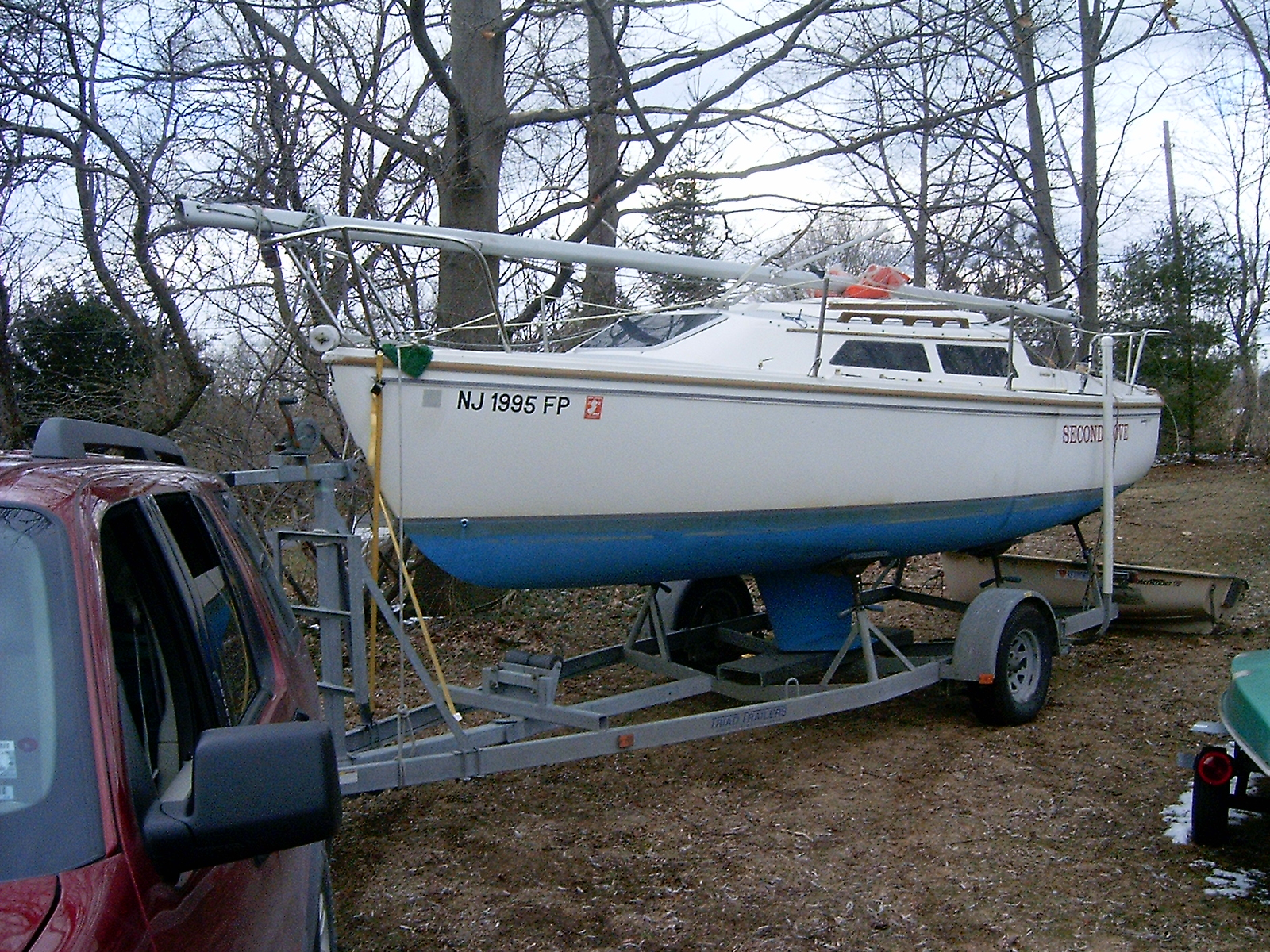 Picture of a Catalina 22 sailboat on a trailer.